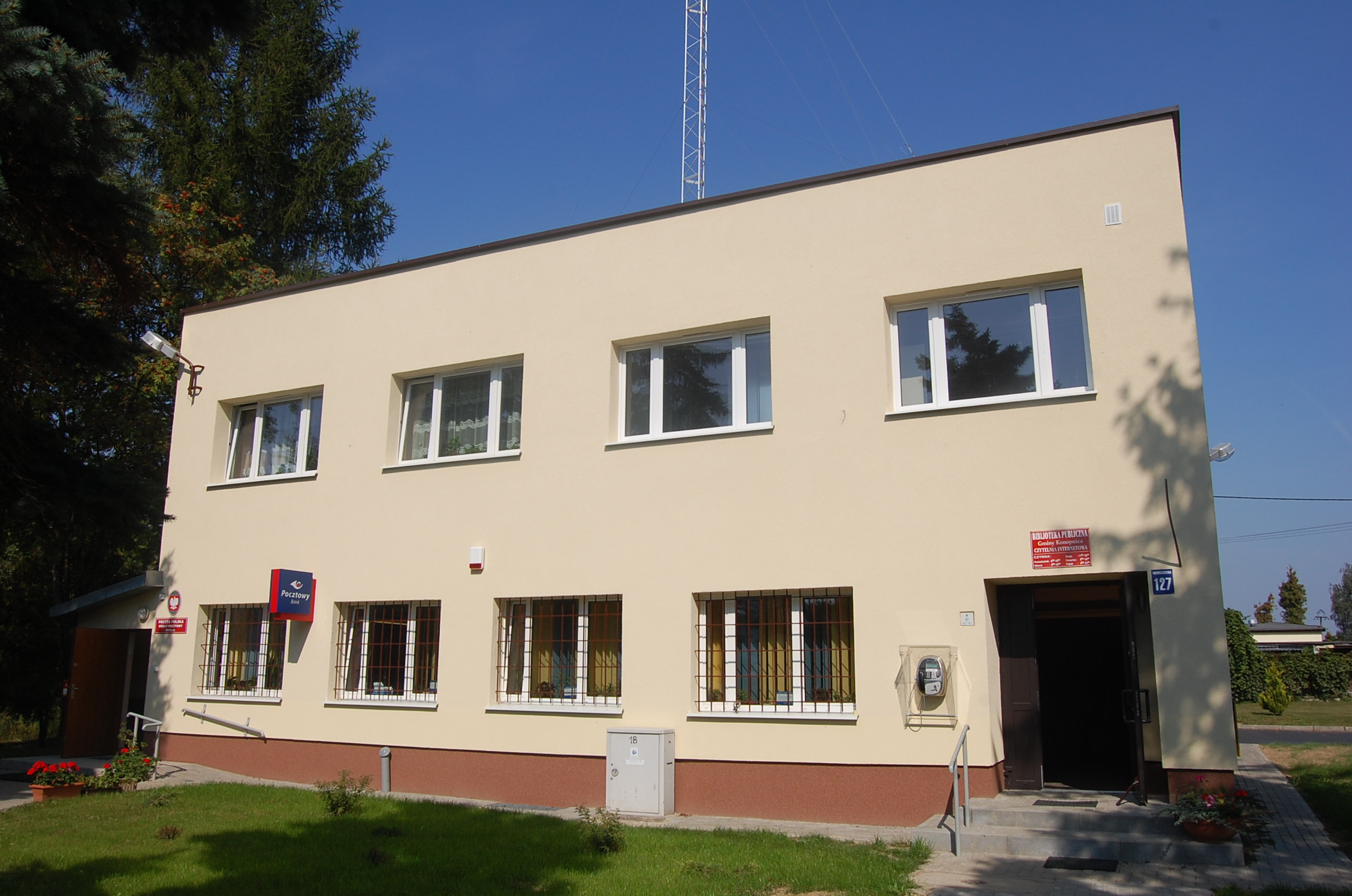 Library and post office in Kozubszczyzna